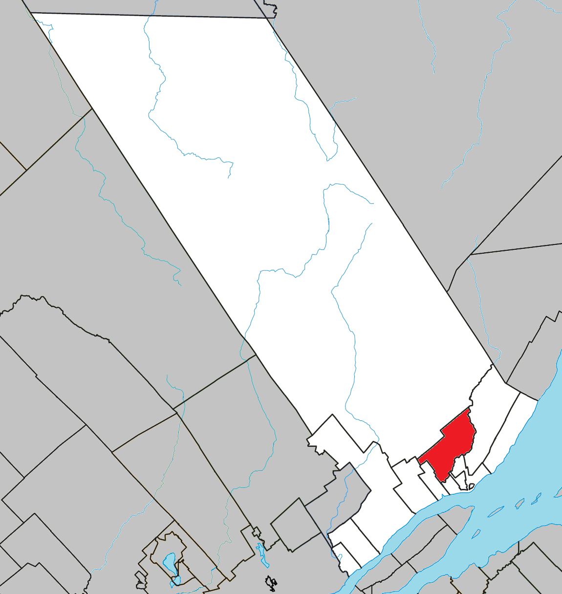 Location of Saint-Ferréol-les-Neiges, Quebec within La Côte-de-Beaupré Regional County Municipality.